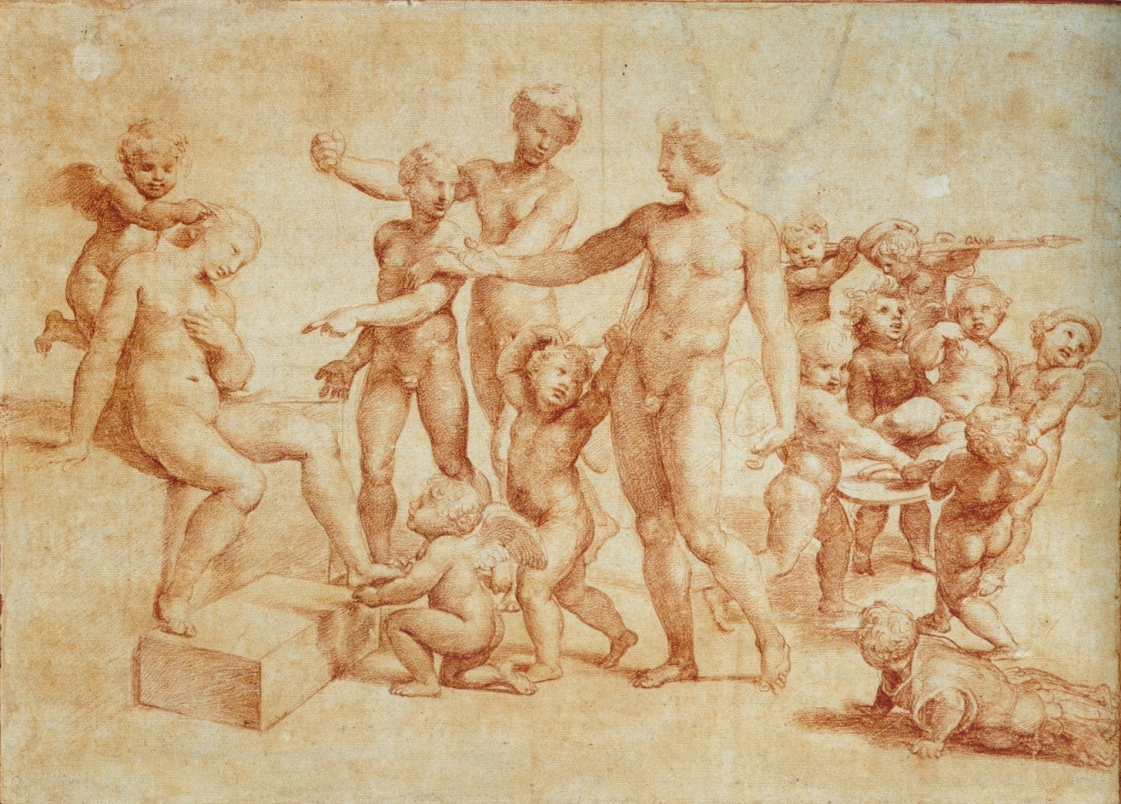 Marriage_of_Alexander_and_Roxana.__Study_for_Villa_Farnesina._1510s._Albertina,_Vienna